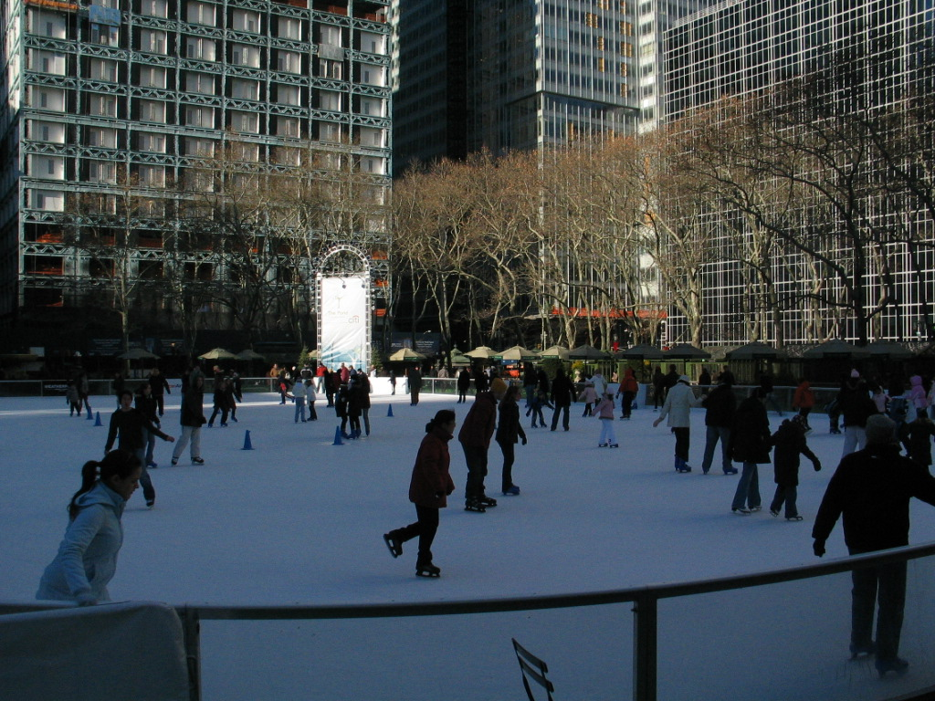 Citi Park at Bryant Park operates in Winter